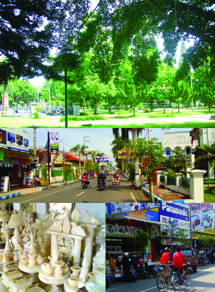 Some snapshot of Tulungagung Regency Template:Lang-id